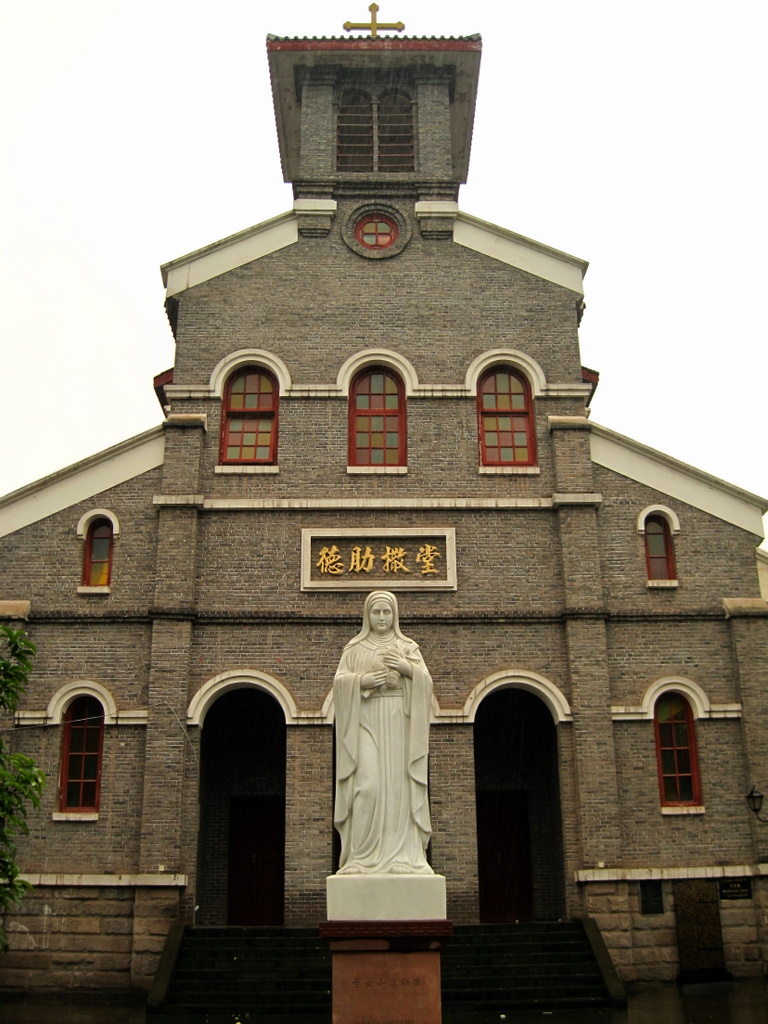 St. Teresa's Church,Jiangbei District,Chongqing,China.